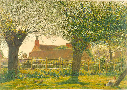 Boyce studied architecture on the Continent. A fortuitous meeting with David COX at Bettws-y-Coed in 1849 encouraged him to take up landscape painting. From 1851 to 1875 Boyce kept a diary (extracts published in O.W.S. Club Vol.XIX, 1941) which gives us intimate pictures of RUSKIN, MILLAIS, Holman HUNT, William Morris (1834-96), Algernon Swinburne (1837-1909), WHISTLER and, above all, ROSSETTI. The meticulous style of Boyce’s painting was clearly influenced by the Pre-Raphaelites. The Tate exhibition catalogue by Christopher Newall and Judy Egerton quotes Staley’s opinion that this is a very good example of ‘the sense of intimacy’ which Boyce gives his subjects by restricting the space he allows them. EJ/CB